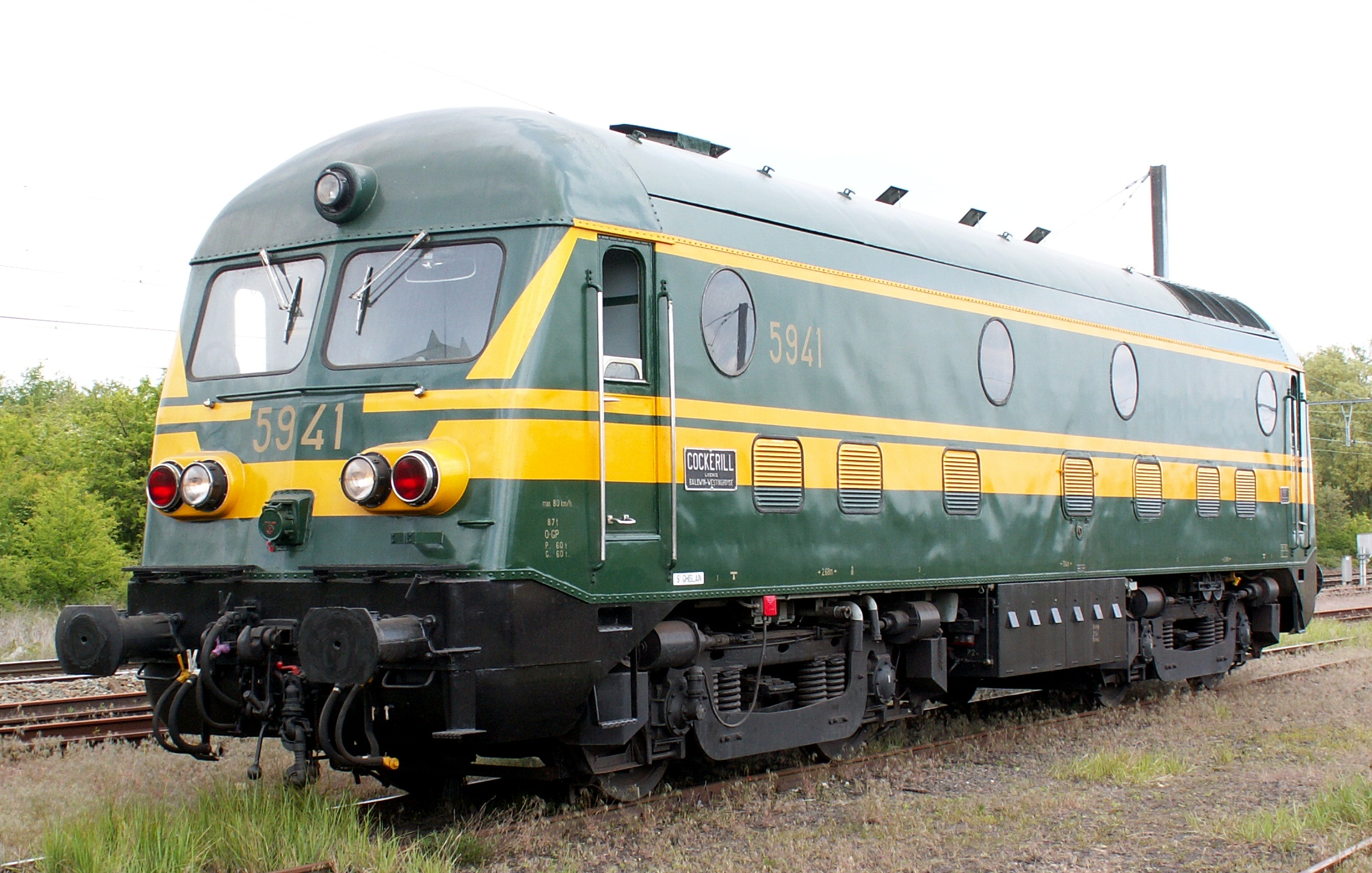 Diesel locomotive 5941 from belgian heritage railway association "Patrimoine Ferroviaire et Touristique" (PFT), as seen at the Saint Ghislain loc yard of the association, during on open door event. This locomotive series, build 1955 by Cockerill under licence of US company Baldwin-Westinghouse was retired in 2002, bought by PFT. After 2 years of deep restoration, it's fully operationnal since 2004.